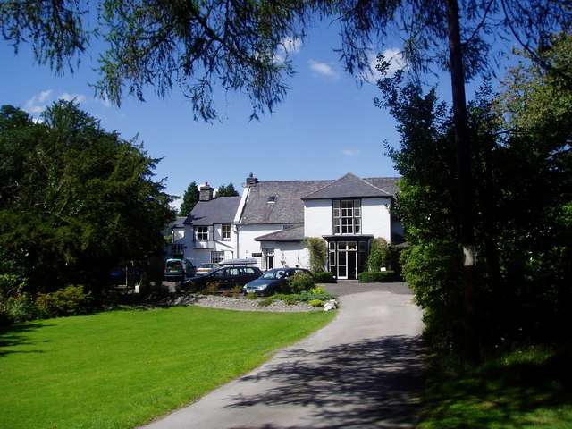 Plas Dolguog Hotel Plas Dolguog is at the end of a narrow winding lane which leaves the Machynlleth road at Felingerrig and is set in 9 acres of grounds, with views over the Dyfi Valley towards the hills. The house is possibly named after a 6th Century leader, Cuog, who owned lands hereabouts. Llewarch Hen (the Old), ancient prince and bard, is supposed to have lived in a hut at Dolguog in the 7th century. He apparently wrote one of the first poetic addresses in the Welsh language - "To the Cuckoo in Abercuawg". The current house dates from about 1600. Matthew Herbert lived there in 1609, and there's a date stone still present with 1632 inscribed upon it. The Herberts were a powerful family along the Welsh border country, owning properties at Cherbury and Powis Castle as well as at Dolguog. Francis Herbert and his wife Abigail's initials, circa 1750, can be seen at Dolguog. It is now a country house hotel. (Information from Richard Knight William's website on Machynlleth).